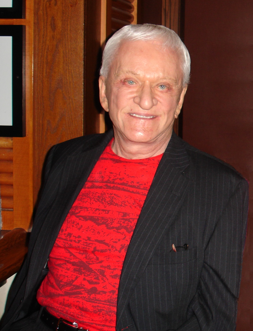 Don Laughlin, in July, 2009.